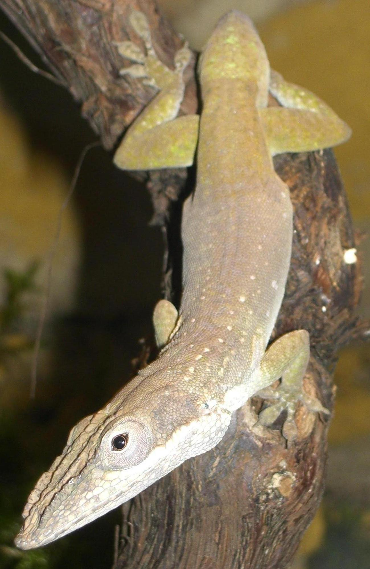 Male Anolis allisoni photographed in a terrarium.